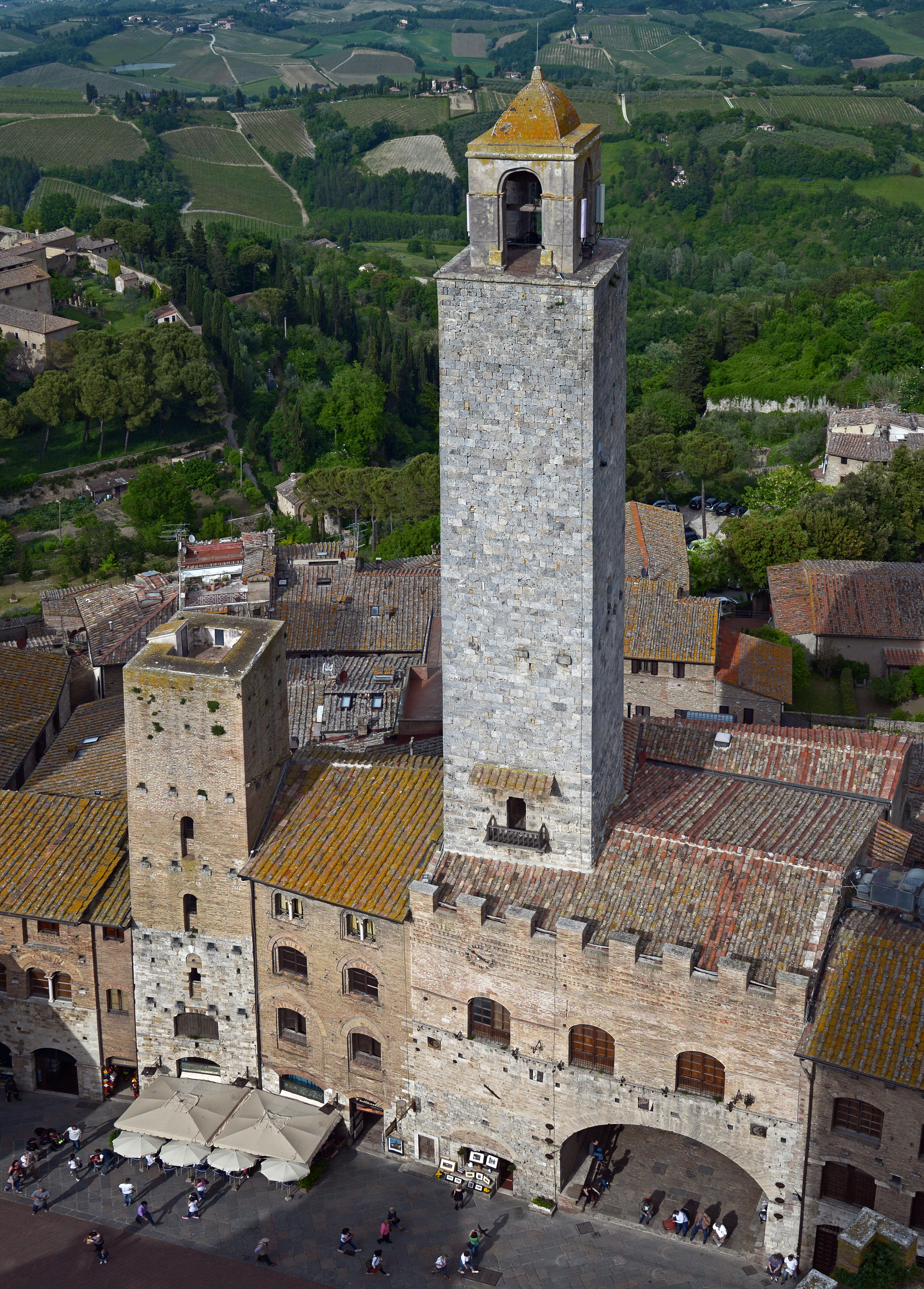 Torre Rognosa in San Gimignano. Italy